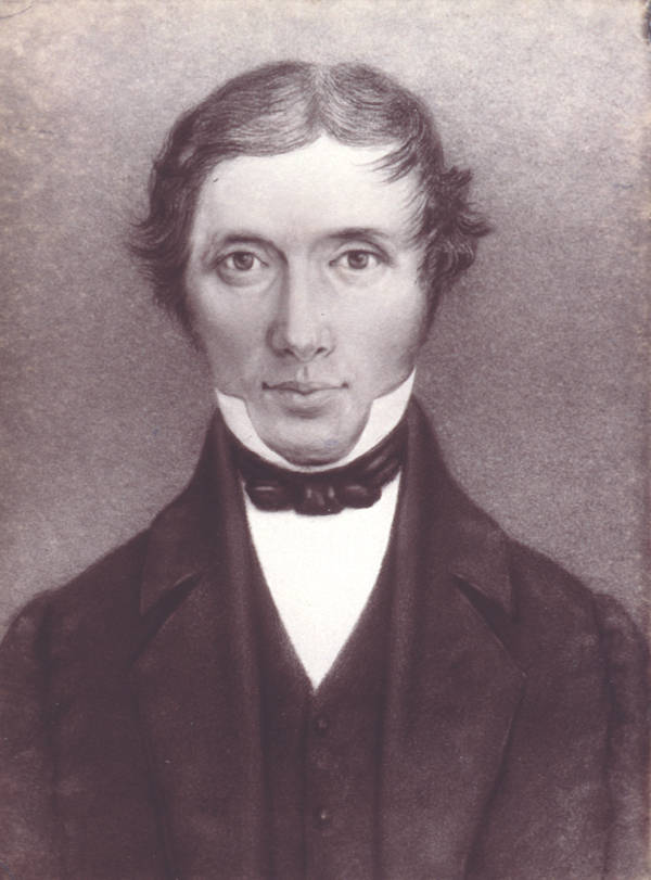 Thomas Davey, Second Governor of Tasmania